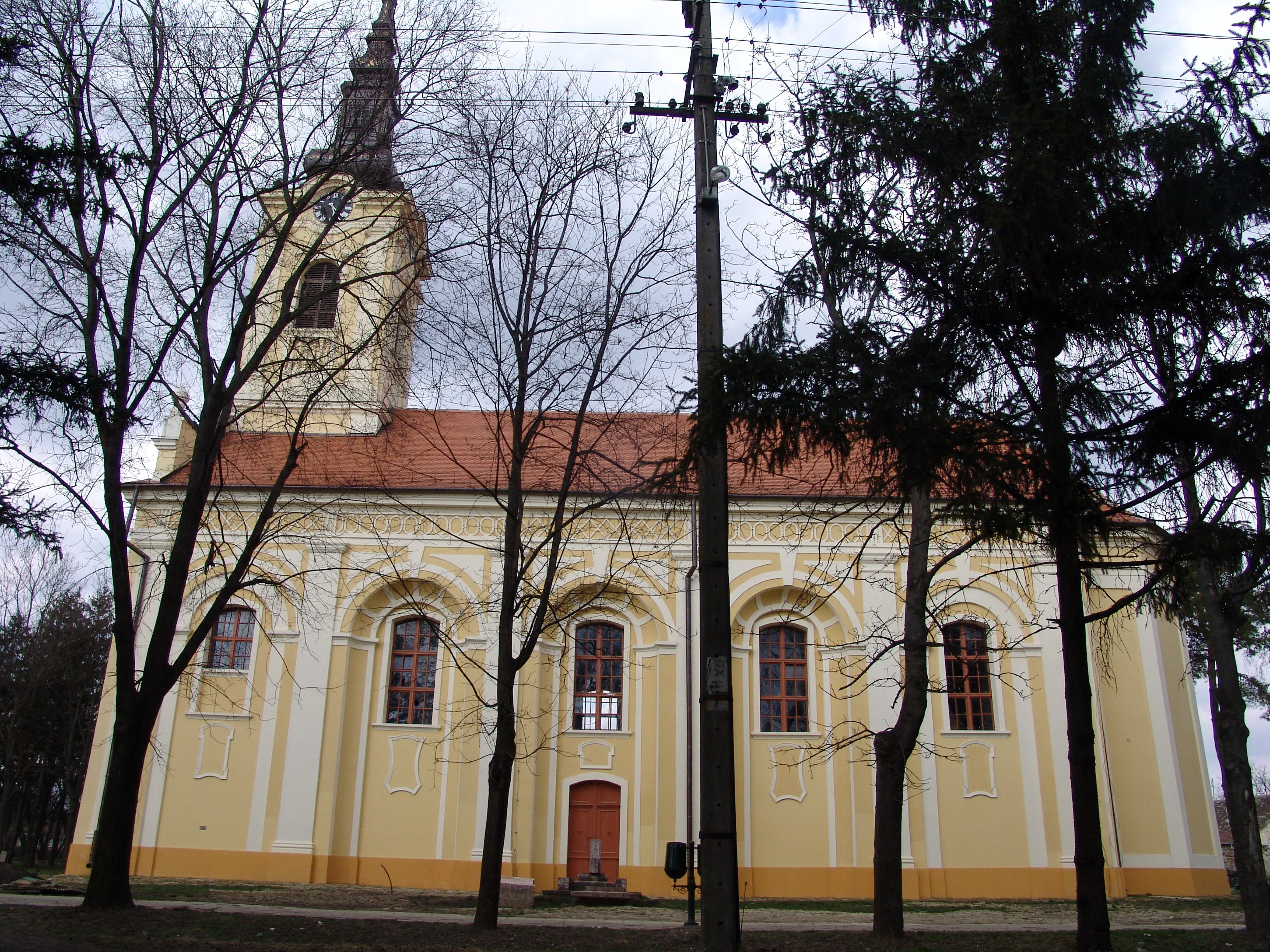 Serbian Orthodox church of the Dormition of the Mother of God in Perlez - southern facade